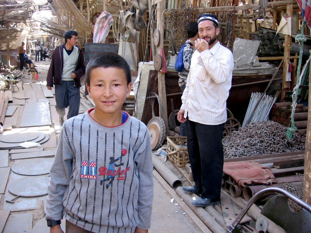 Khotan (Hotan / Hetian) is an oasis city in the Xinjiang Uygur Autonomous Region of the People's Republic of China. Uyghur people at sunday market.